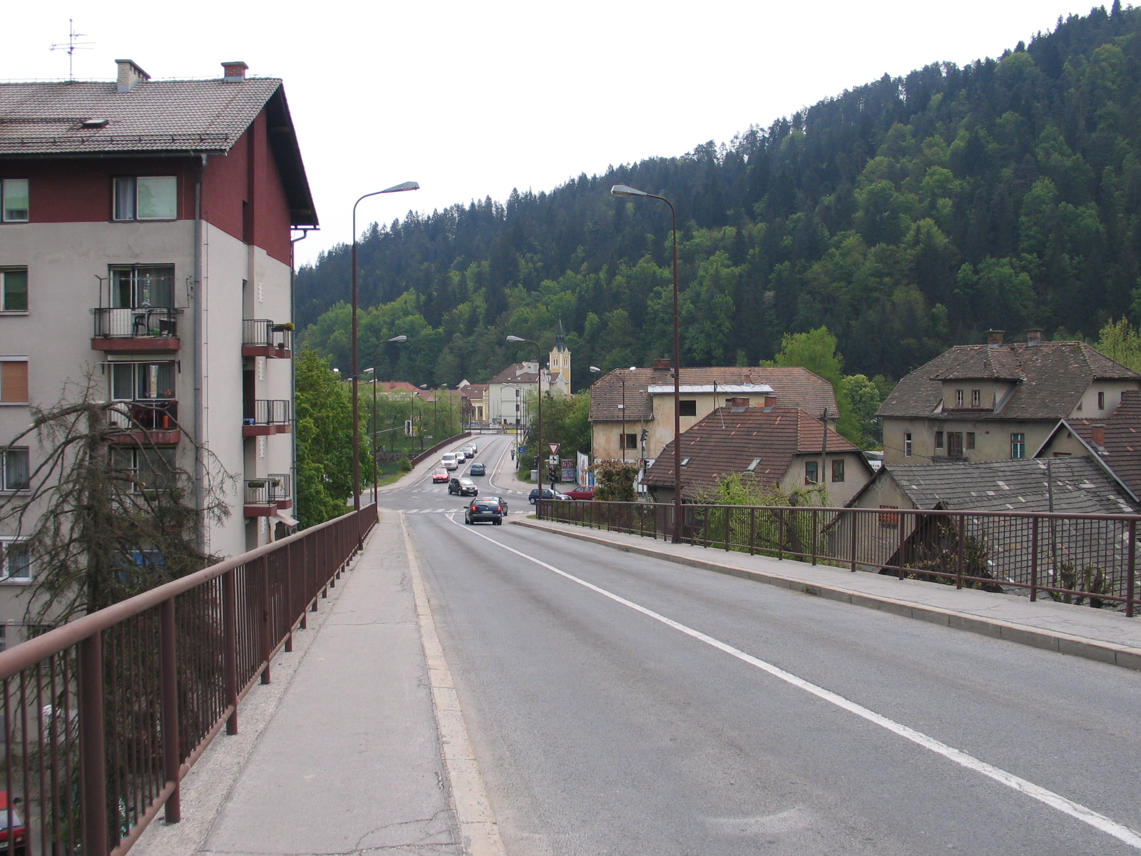 Litija, Slovenia